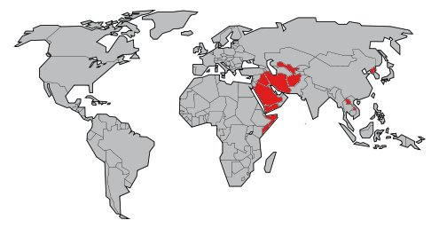 The fifthy countries in which the worst Christian persecutions exist. Source Open Doors - WorldWatchlist 2013